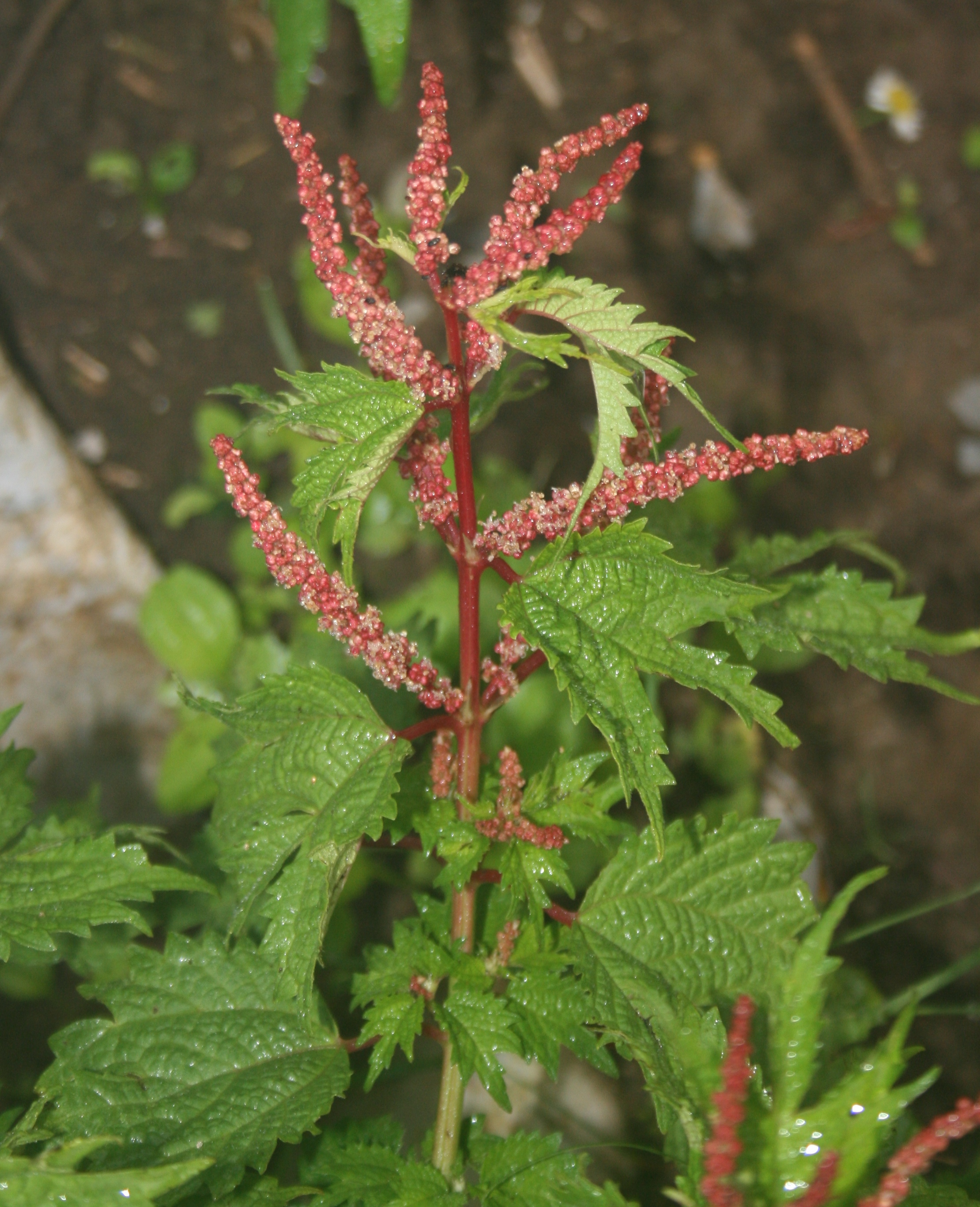 Boehmeria silvestrii, in Mount Ibuki, Maibara, Shiga prefecture, Japan.